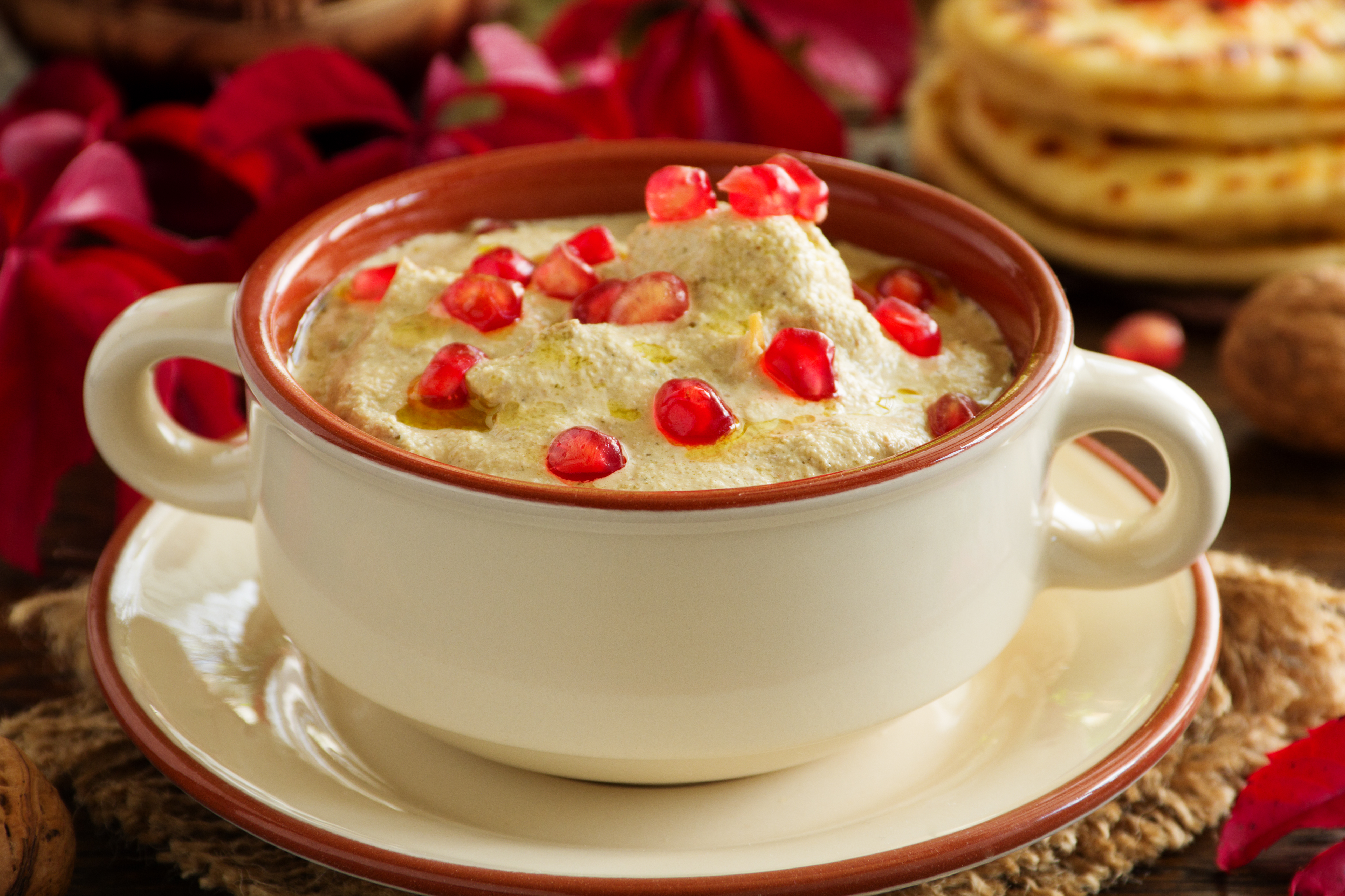 Georgian dish of chicken - satzivi.